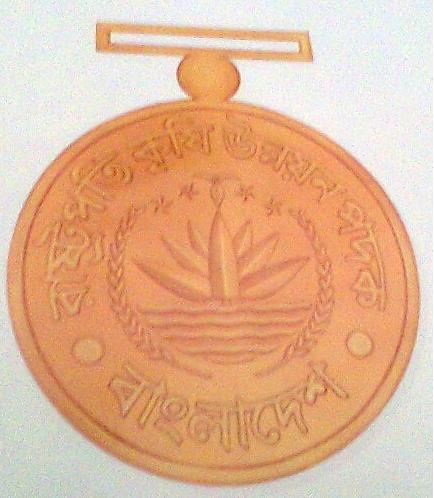 President's Award for Agricultural Development